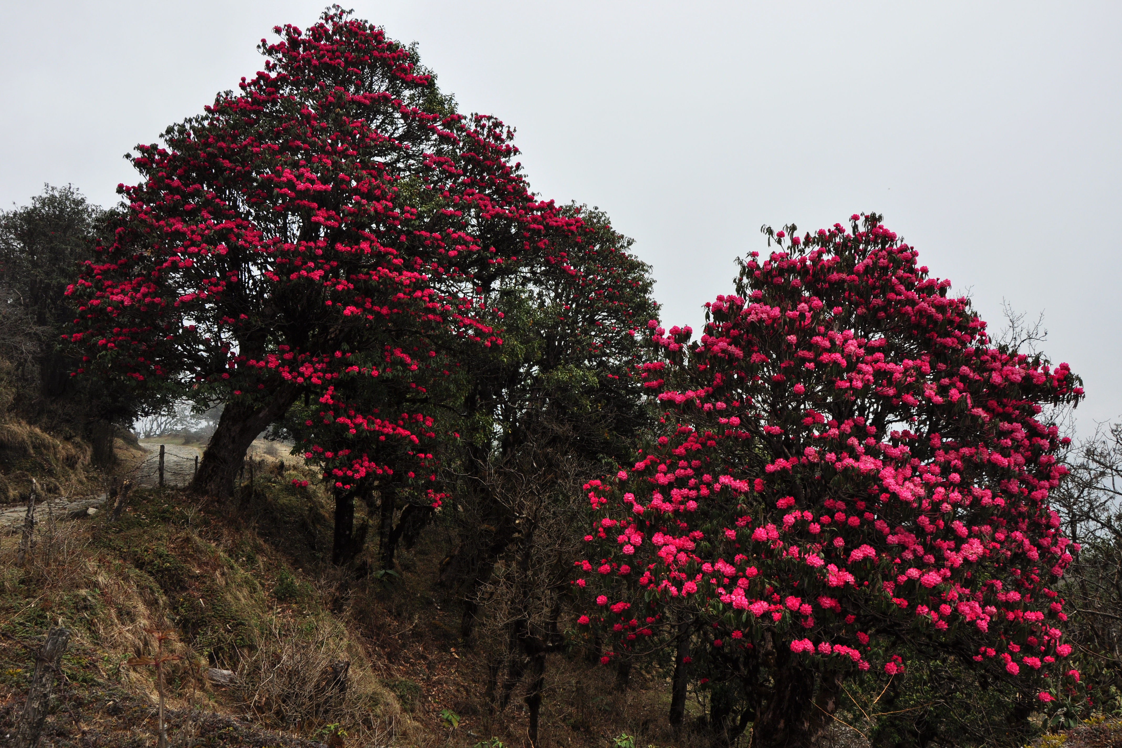 On the way to Sandakphu (3636 m) from Manabhanjan over Darjeeling Himalayan Hills in West Bengal, India.